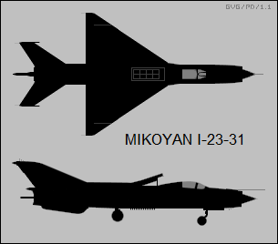 2-view silhouettes of the Mikoyan-Gurevich Ye-7PD (izdeliye 23-31 or izdeliye 92)